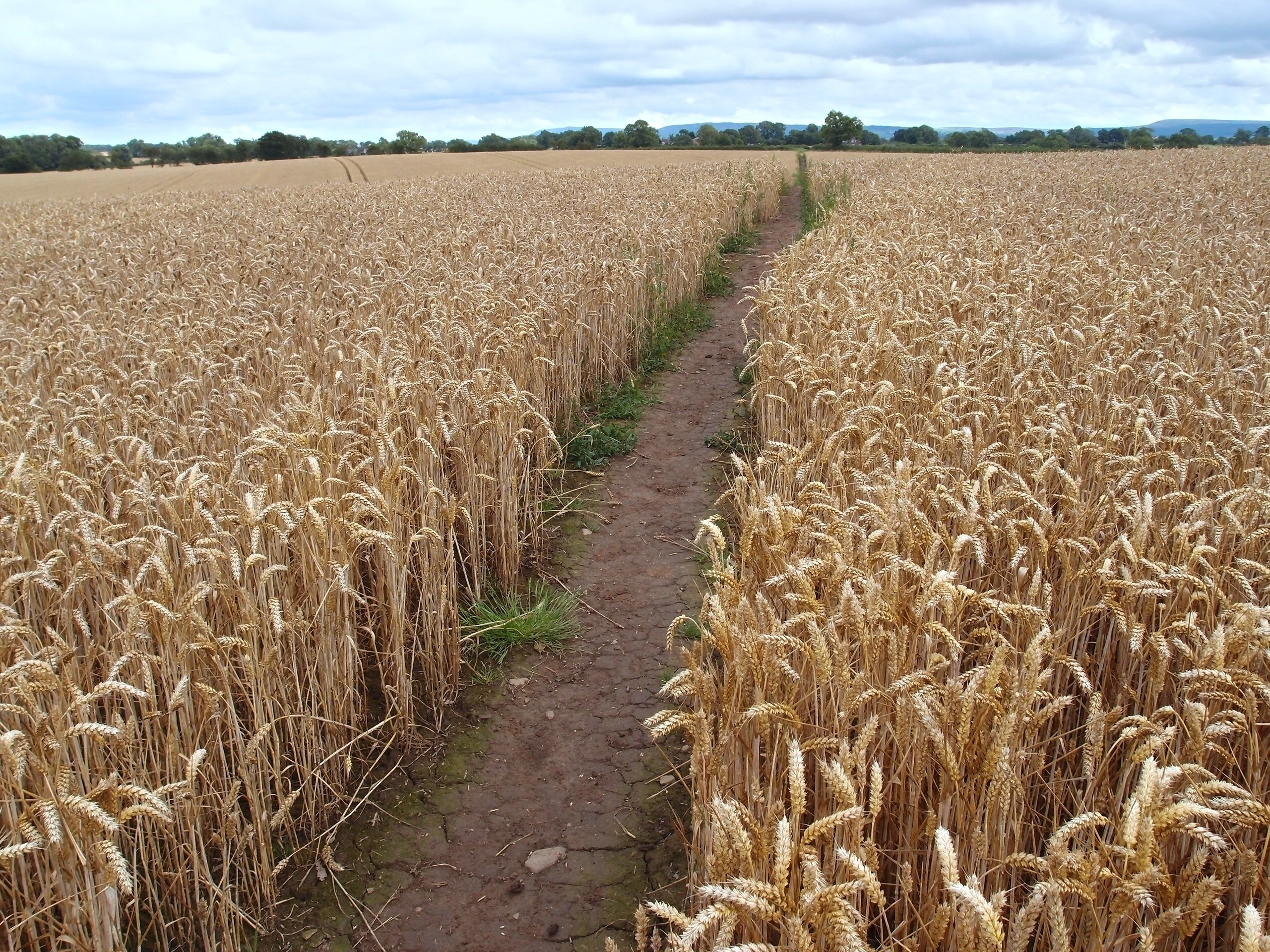 Footpath leading through a field in the Vale of Mowbray